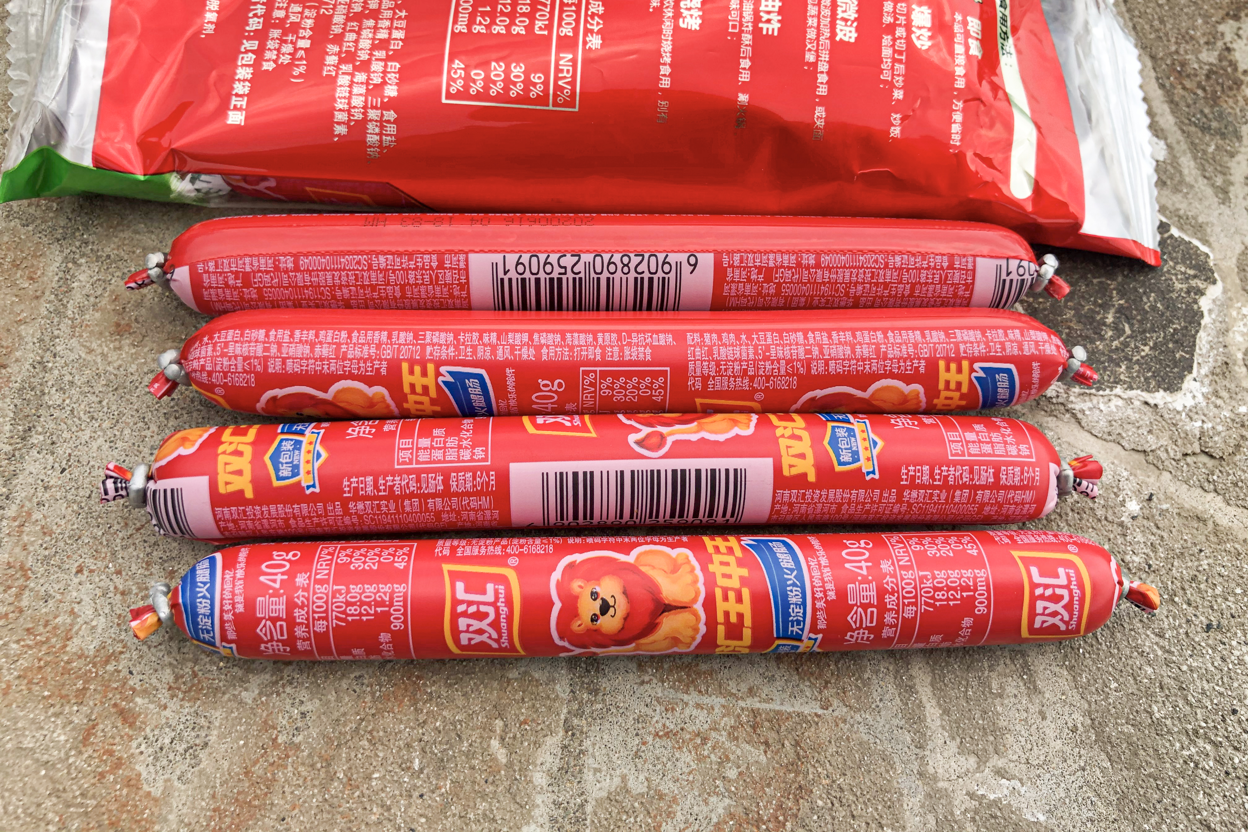 Shuanghui "King of Kings", made in Luohe.